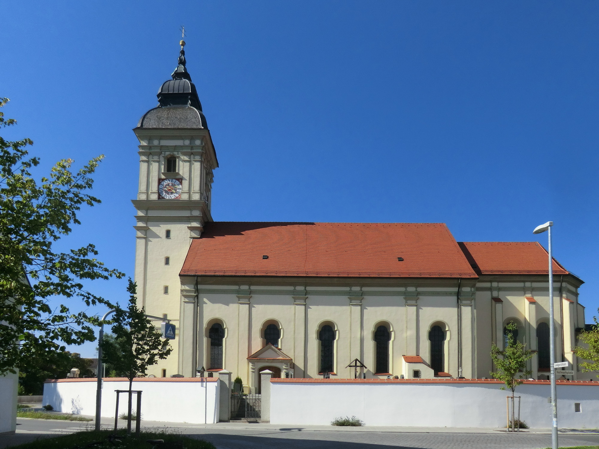 Church of the Assumption of Mary Native nameSt. Mariä VerkündigungLocationErding, GermanyCoordinates48° 17′ 35.54″ N, 11° 54′ 19.87″ E Authority control : Q41243518 institution QS:P195,Q41243518